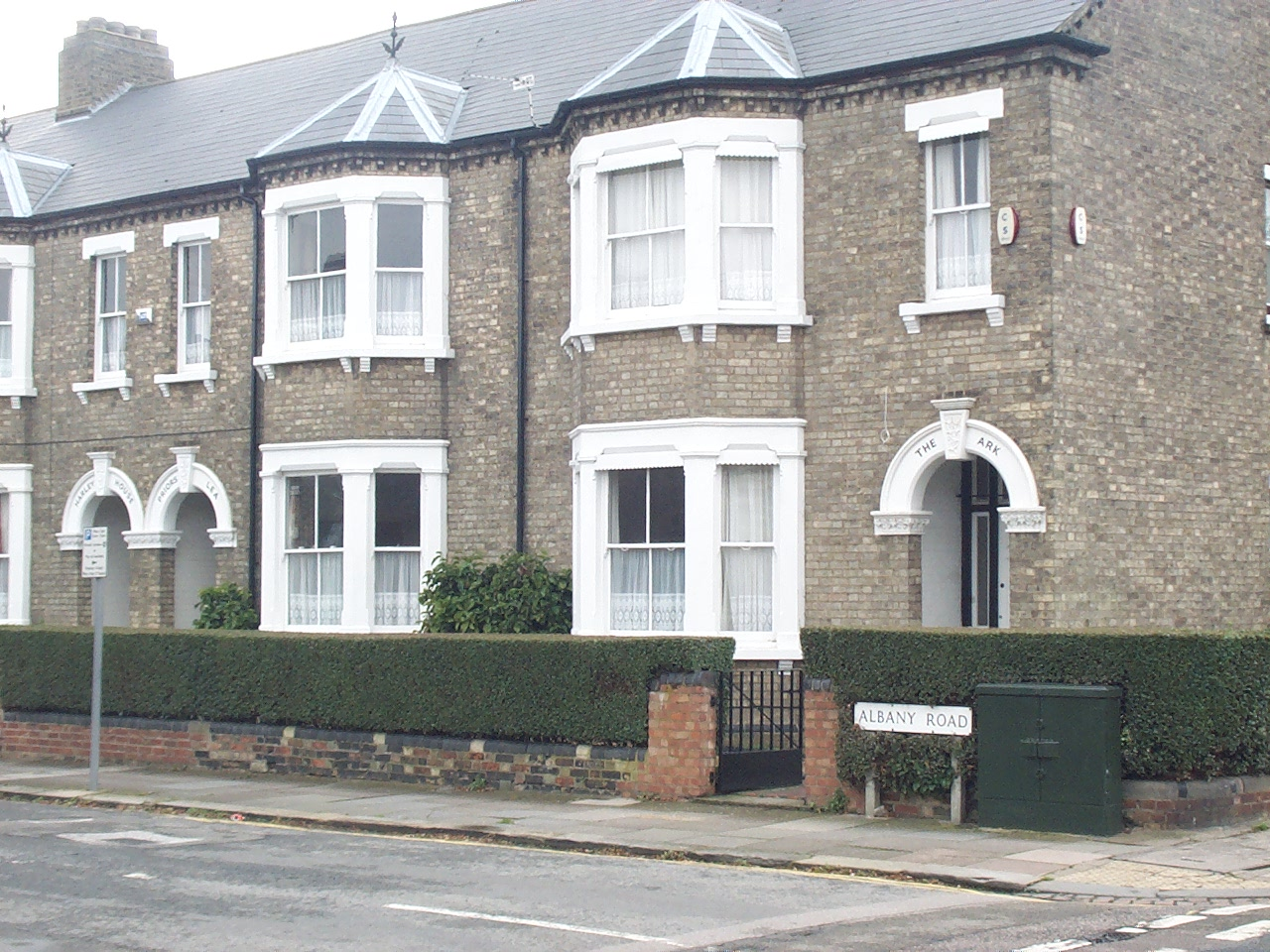 Headquarters of the Panacea Society, 14-16 Albany Road, Bedford, Bedfordshire, England. No 12 (on the left) is where Mabel Bartrop lived. One of these houses is where Jesus will supposedly live if he comes back.